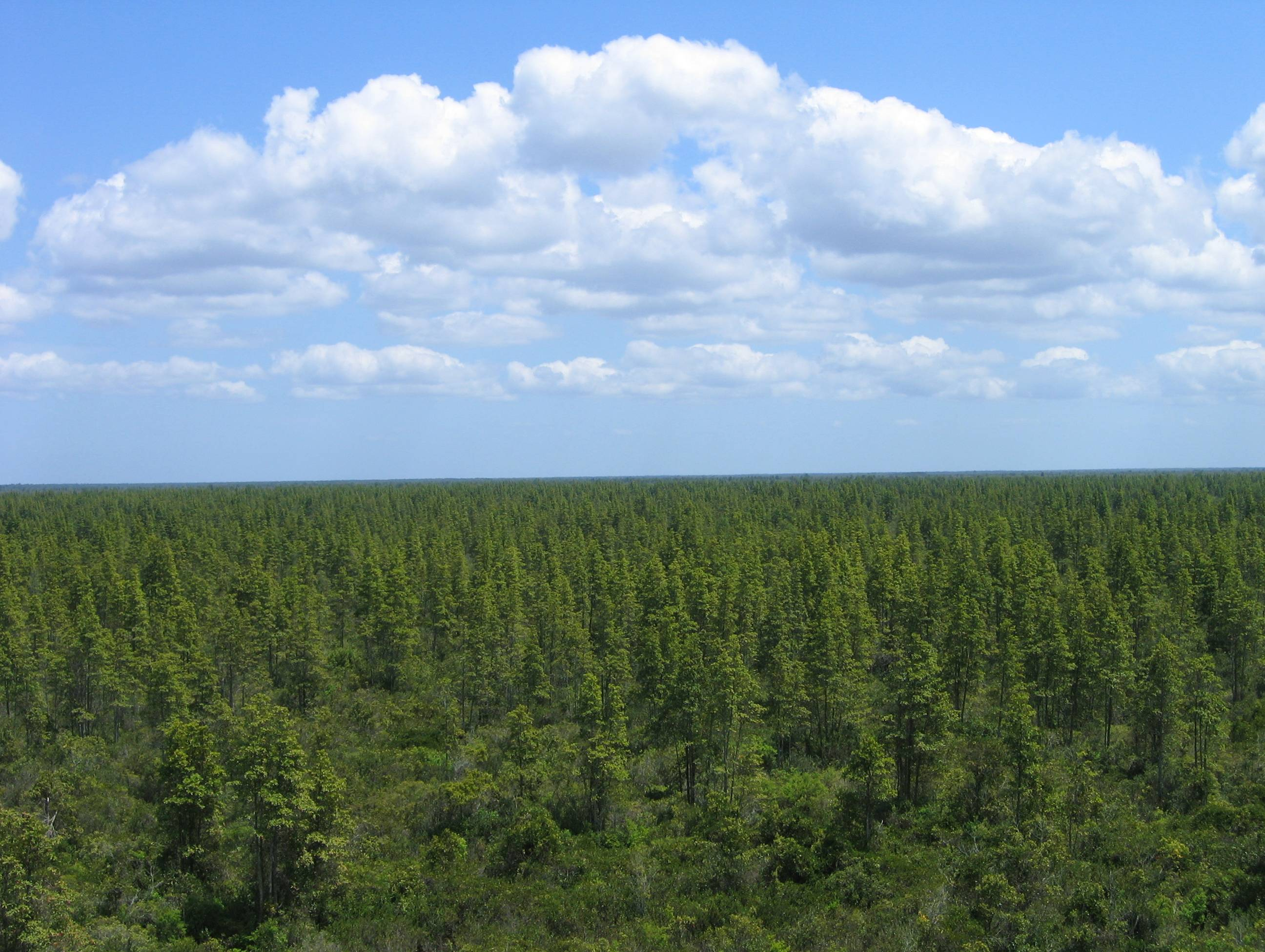 Beneath forests of pond pines, white cedars and a dense shrub understory, the chocolate-colored soils are layered with thousands of years of slowly decaying organic material. The most precious ingredient in these pocosins, or peatlands, is the carbon-rich peat soil. Photo: Dale Suiter, USFWS.